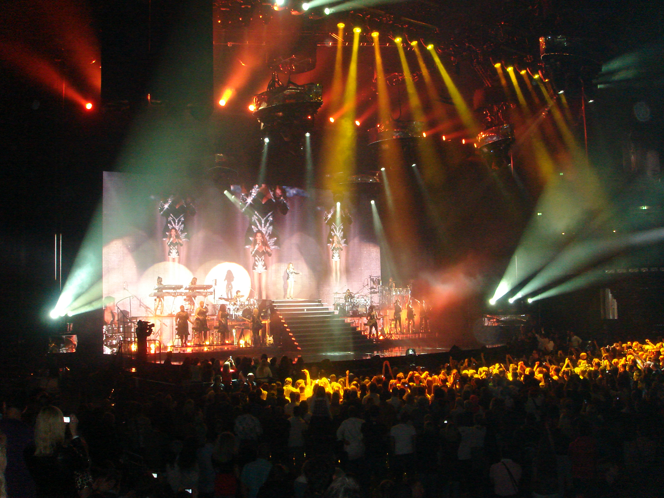 Beyonce I am... Tour 2009 Live in Berlin